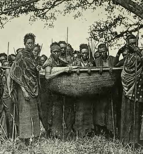 Rwanda ca 1900, Tutsi Chief Kaware travelling (cropped); from Richard Kandts book "Caput Nili" vol II, 97 Kiswahili: rwanda mnamo mwaka 190; chifu Kaware safarini akibebwa na wapagazi wake (imekatwa); kutoka kitabu cha Richard Kandt "Caput Nili" II, uk 97